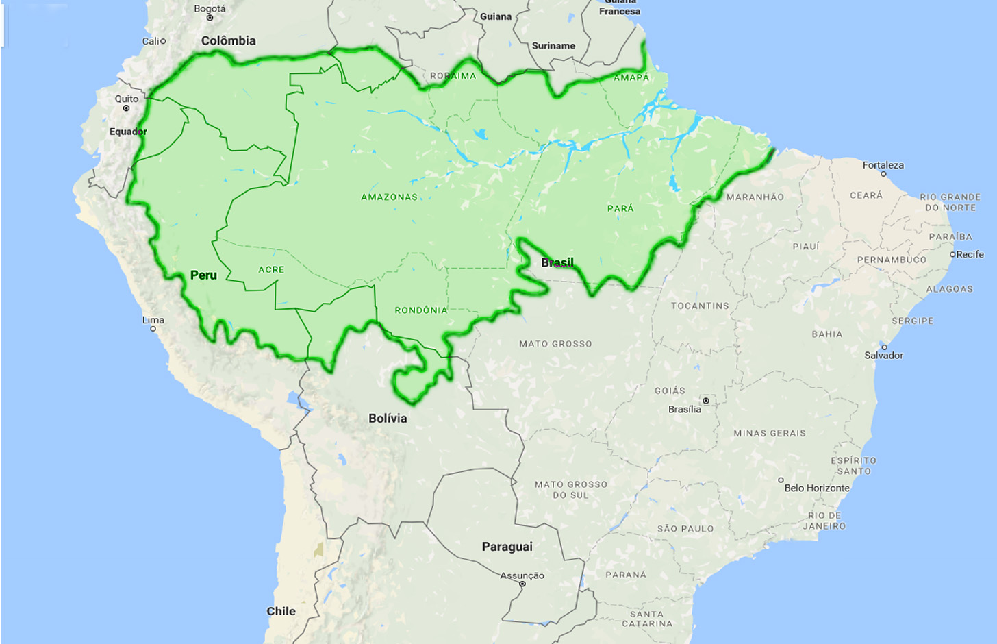 This is a map location of the Amazon Basin incluiding the border lines of the brazilian states which make part of this basin. The area in green encloses Amazon Basin as delineated by the World Wide Fund for Nature. State boundaries are shown in dashed lines. The map was extracted from google maps. I finalized in Photoshop. Detalhes da permissão